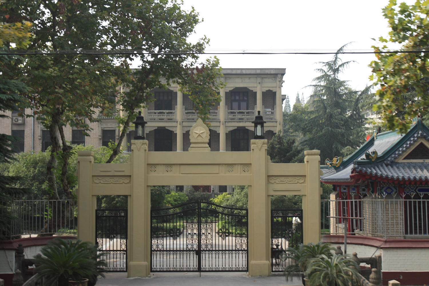 Nanjing Political College 中文（中国大陆）: 南京政治学院